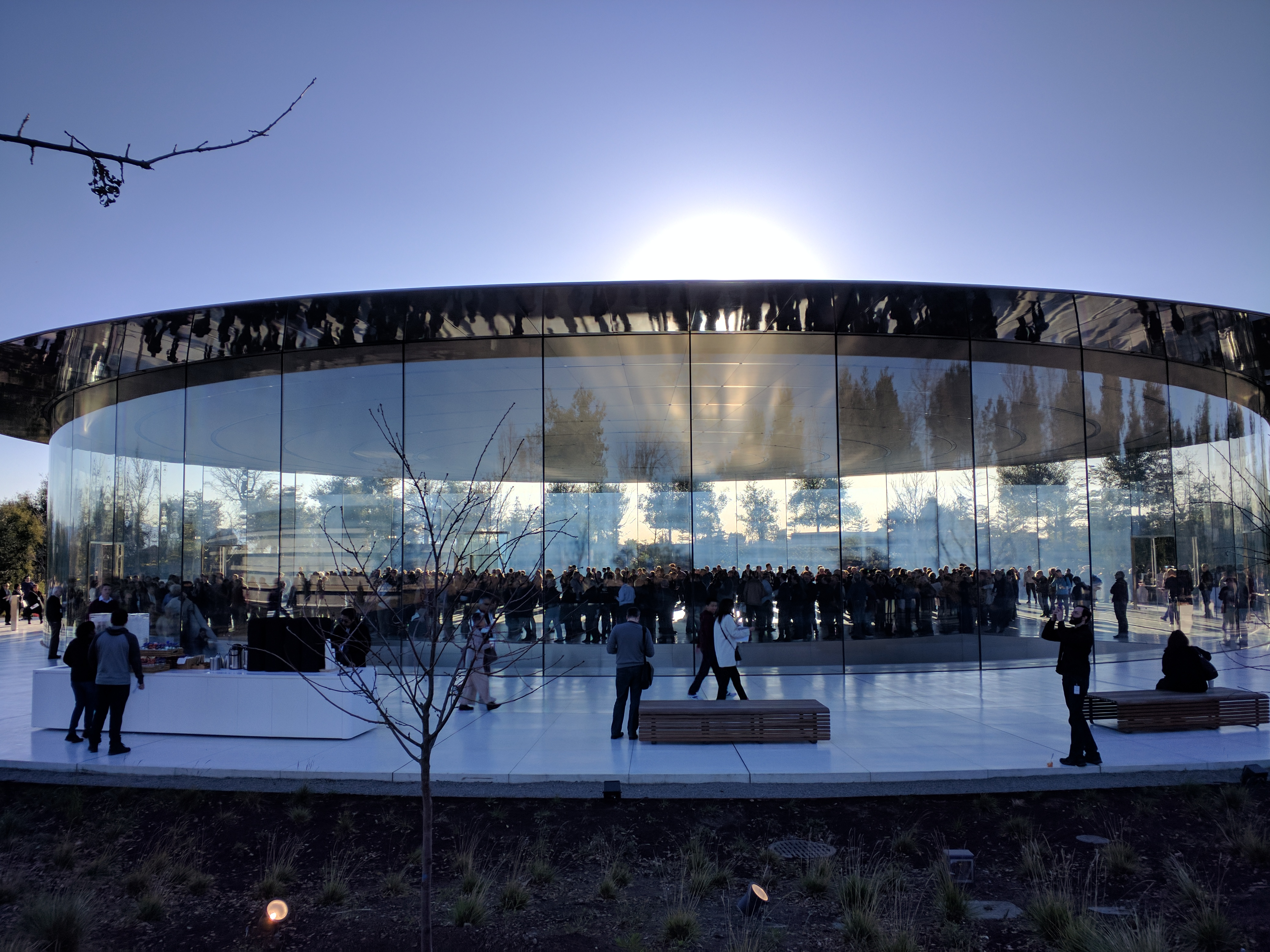 External view of the Steve Jobs Theater at Apple Park in Cupertino, California, USA. Taken before the beginning of Apple's first shareholder meeting held in the theater.